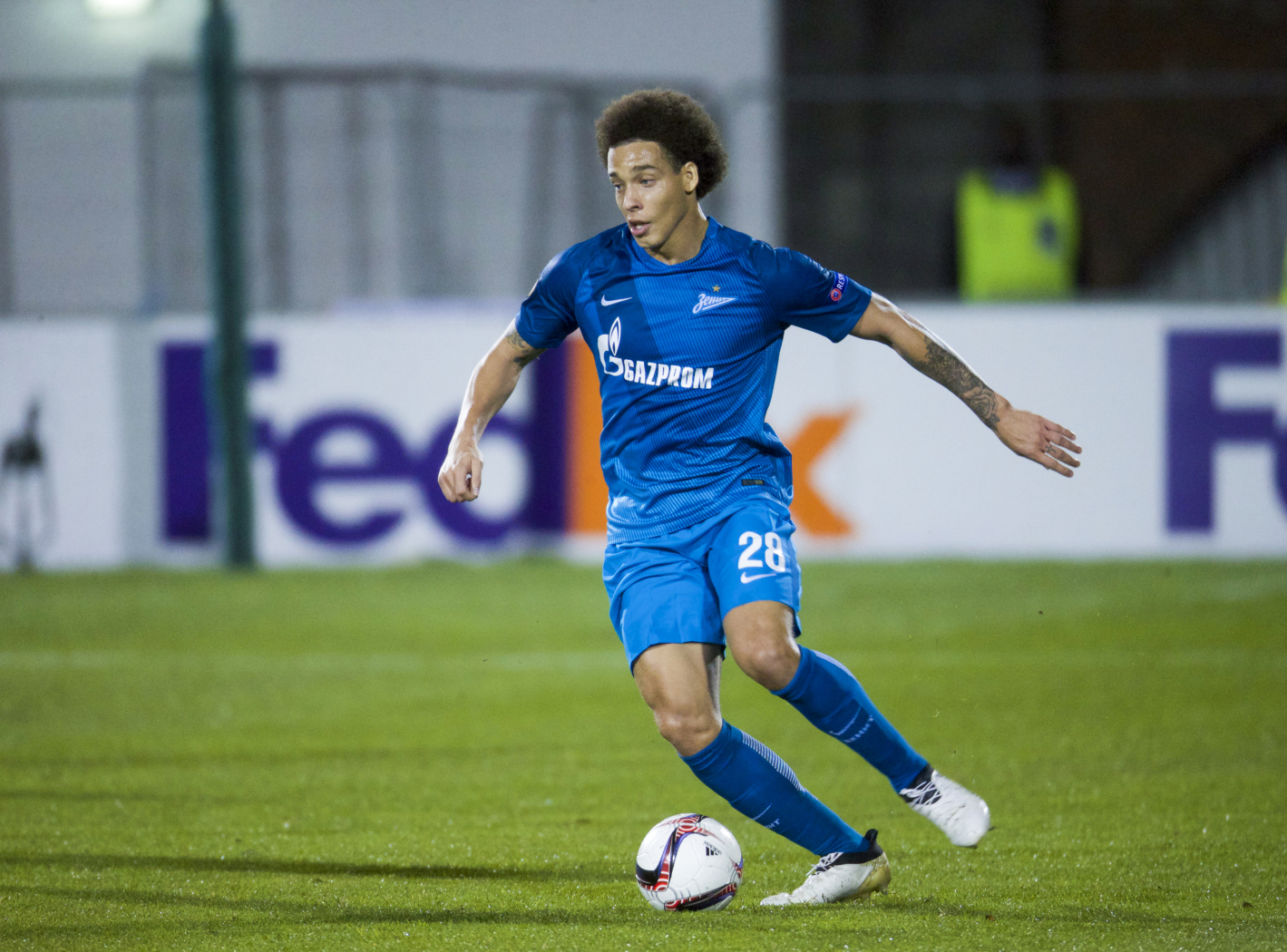 Axel Witsel